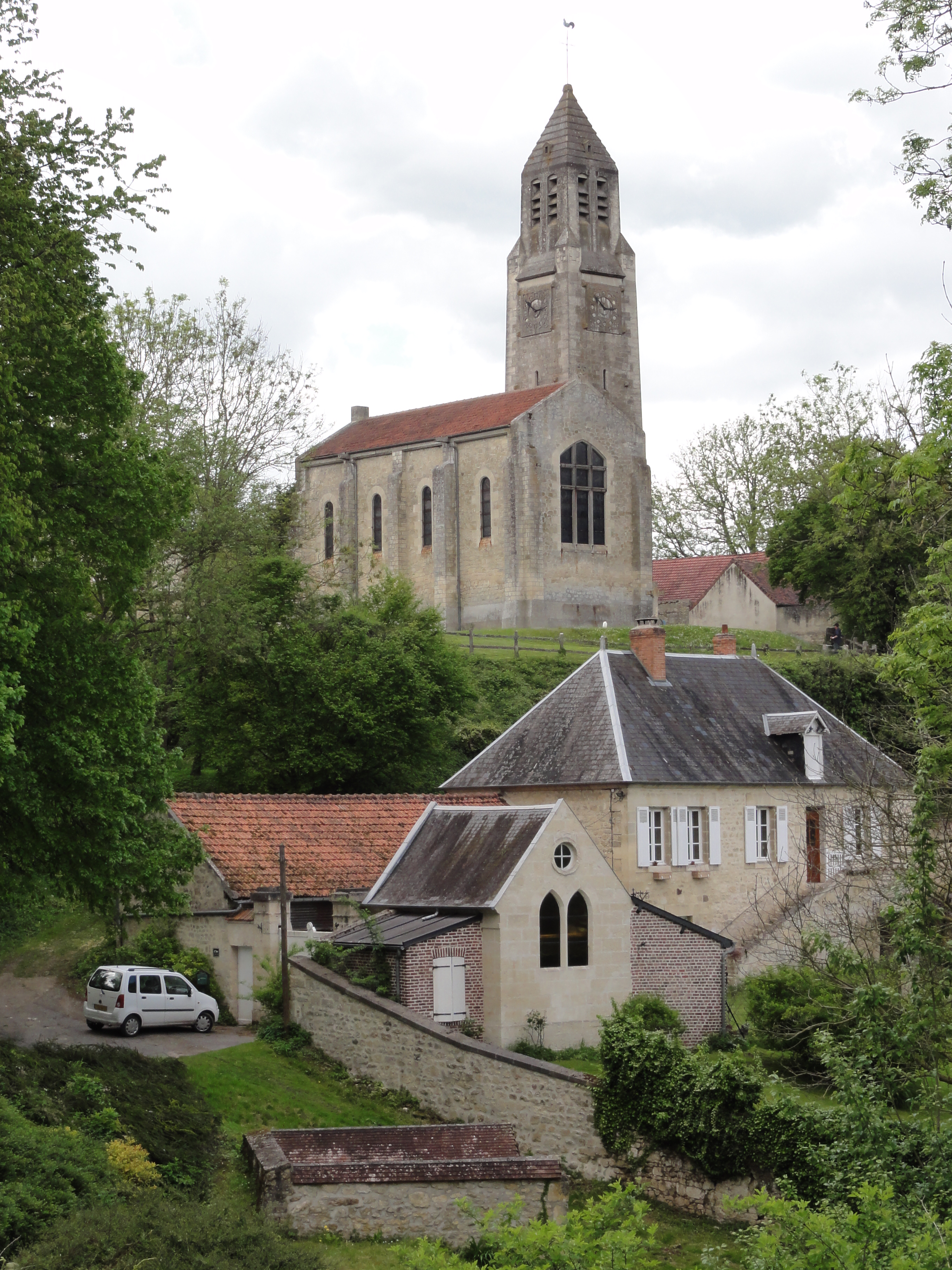 Montbavin (Aisne) l'eglise vue d'en bas